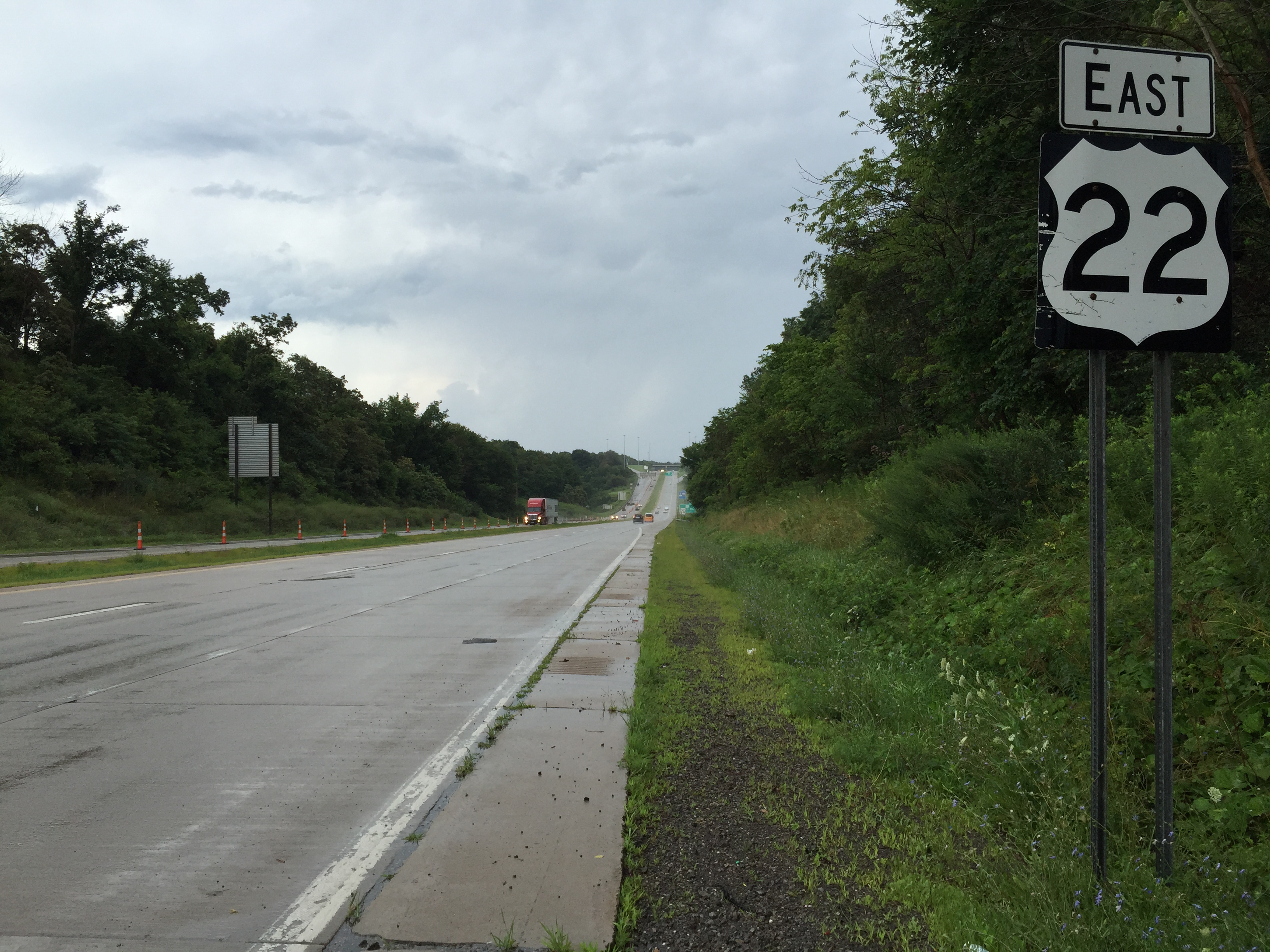 View east along U.S. Route 22 (Robert C. Byrd Expressway) just east of Exit 4 (Brooke County Route 13/Three Springs Drive) in Weirton, Brooke County, West Virginia